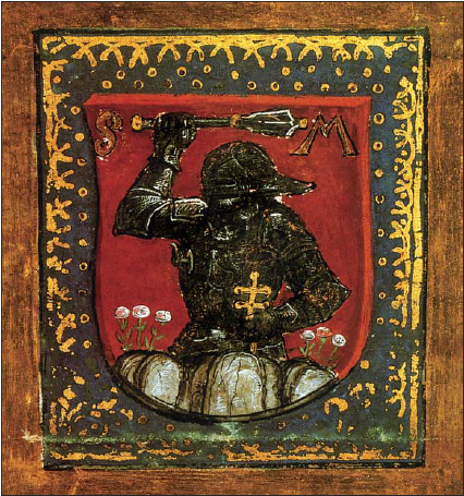 A knight of Black Army. Coat of arms of the Máriássy family